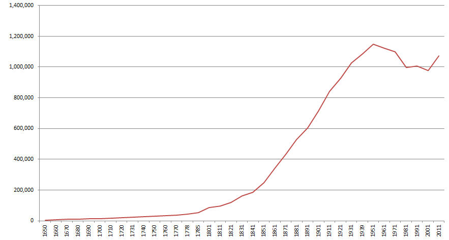 A chart showing the historical population of Birmingham, United Kingdom